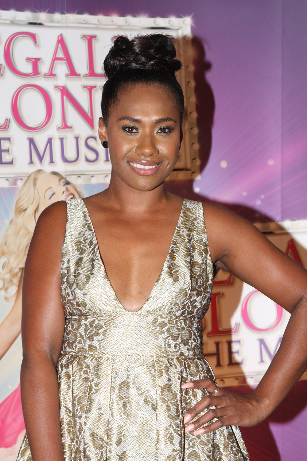 Paulini at the Gala Australian Premiere of Legally Blonde The Musical.